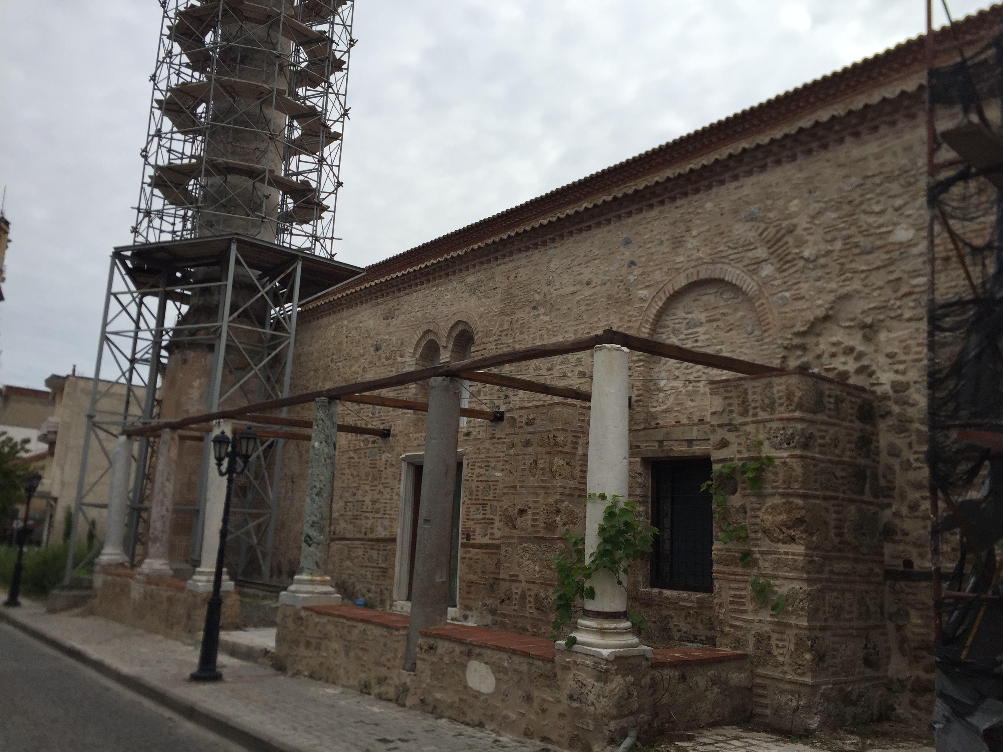 Old Cathedral«Ναός Παλαιάς Μητρόπολης Βέροιας»